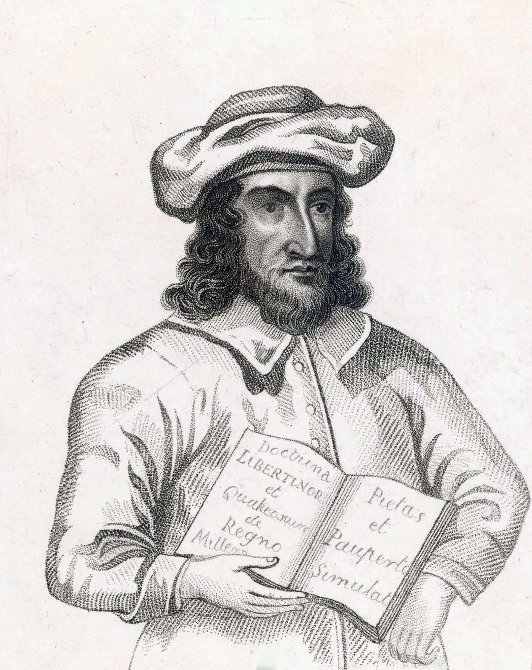 "Fictitious portrait called John Cook" in the National Portrait Gallery. Only one known portrait of John Cook, English regicide and prosecutor of Charles I, survives. This portrait is a Victorian imagining of him, holding a book declaring his pious defense of the poor.